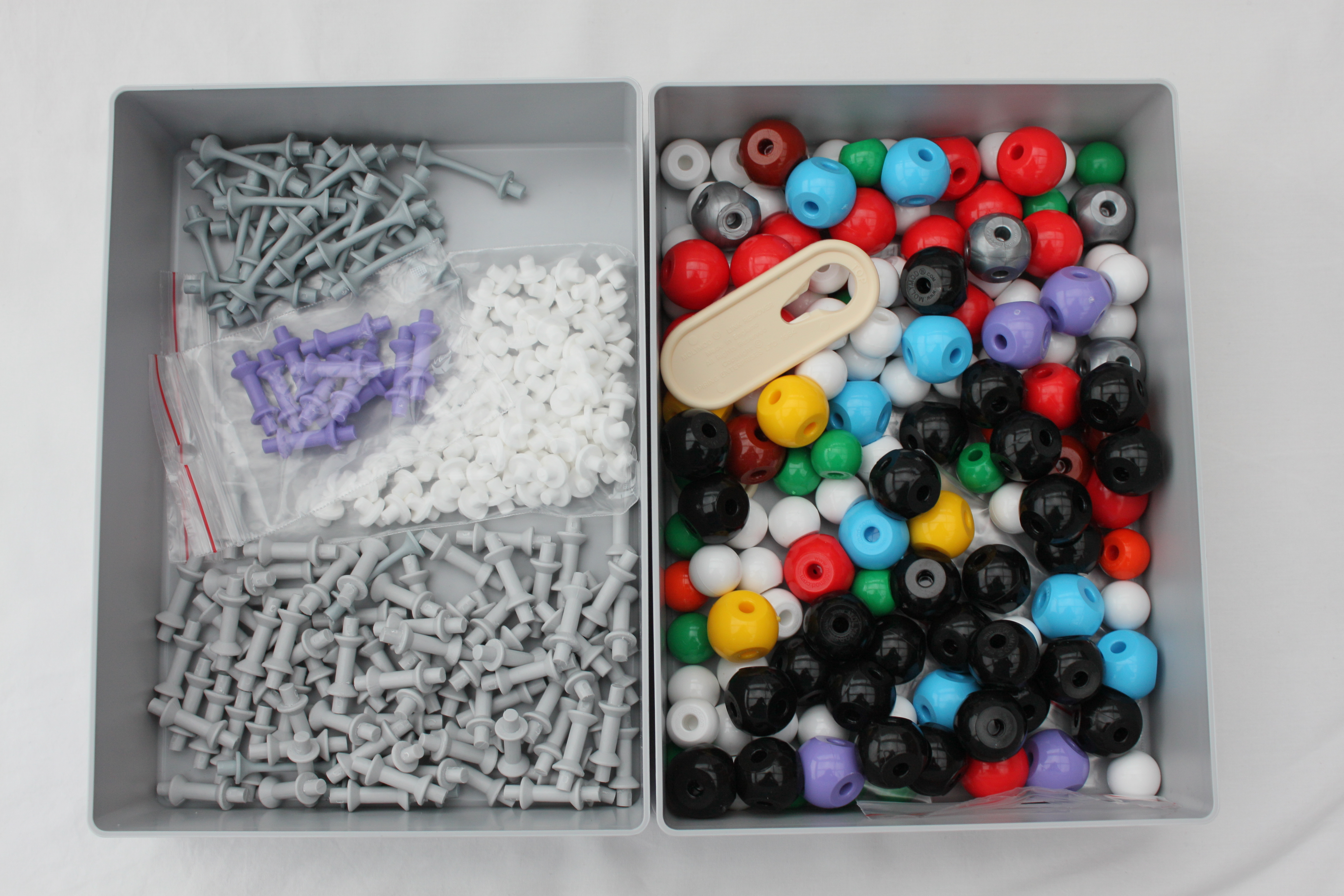 Chemical structures constucted with Prentice Hall Molecular Model Set for General Organic Chemistry